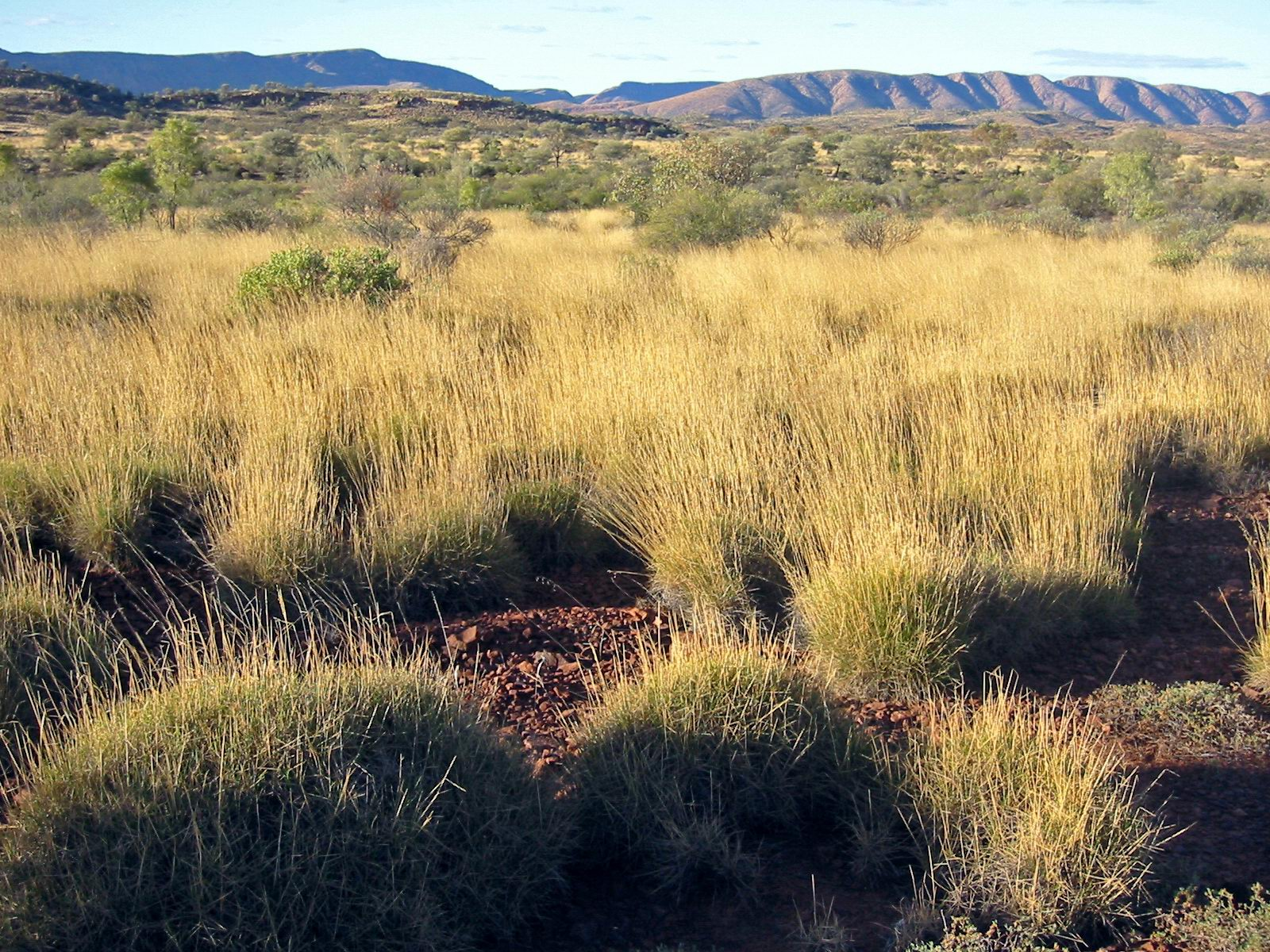 Spinifex Savanna (Spinfex spec.) in MacDonnell Ranges, Central Australia